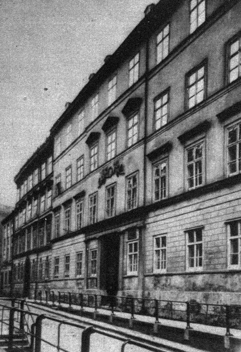 Residence and place of death of Johannes Brahms (1833–1897) in Vienna, Karlsgasse 4 Das Haus wurde vor 1907 abgerissen, um Platz für einen Zubau für die Technische Hochschule zu schaffen, der 1907 bis 1909 errichtet wurde.The building was demolished before 1907. In the years from 1907 until 1909 a new building of the Technical University was established at this point.